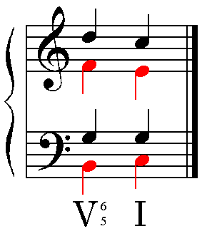 Demonstration of the melodic minor second's place in a cadence. Created by the uploader.